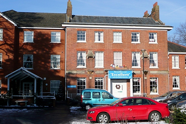 Brunswick House on Bath Road in West Reading. The home of Reading Blue Coat School from 1852 to 1947, this large Georgian house is now the Dunelm Care Home, a care home for the elderly. For a close up of the front door see Excellent care home - .uk - 1633366.jpg. For more information on the Reading Blue Coat School, see Wikipedia article Reading Blue Coat School.